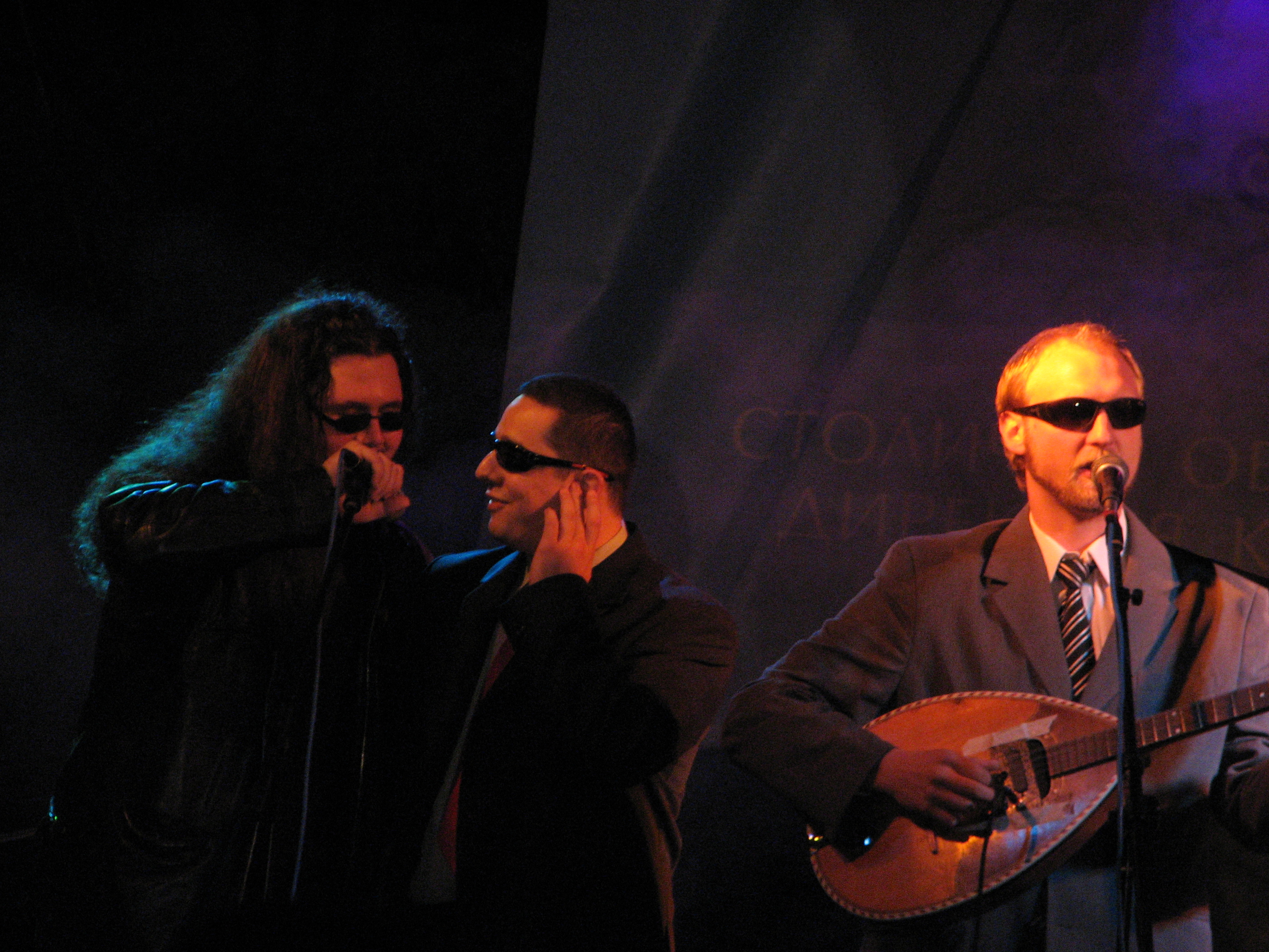 Spas Dimitrov, Iavor Pachovski and Valentin Monovski in a Balkandji concert on the annual "Gradat i az" (Bulgarian: Градът и аз, meaning "The City and Me") festival in Sofia, Bulgaria.